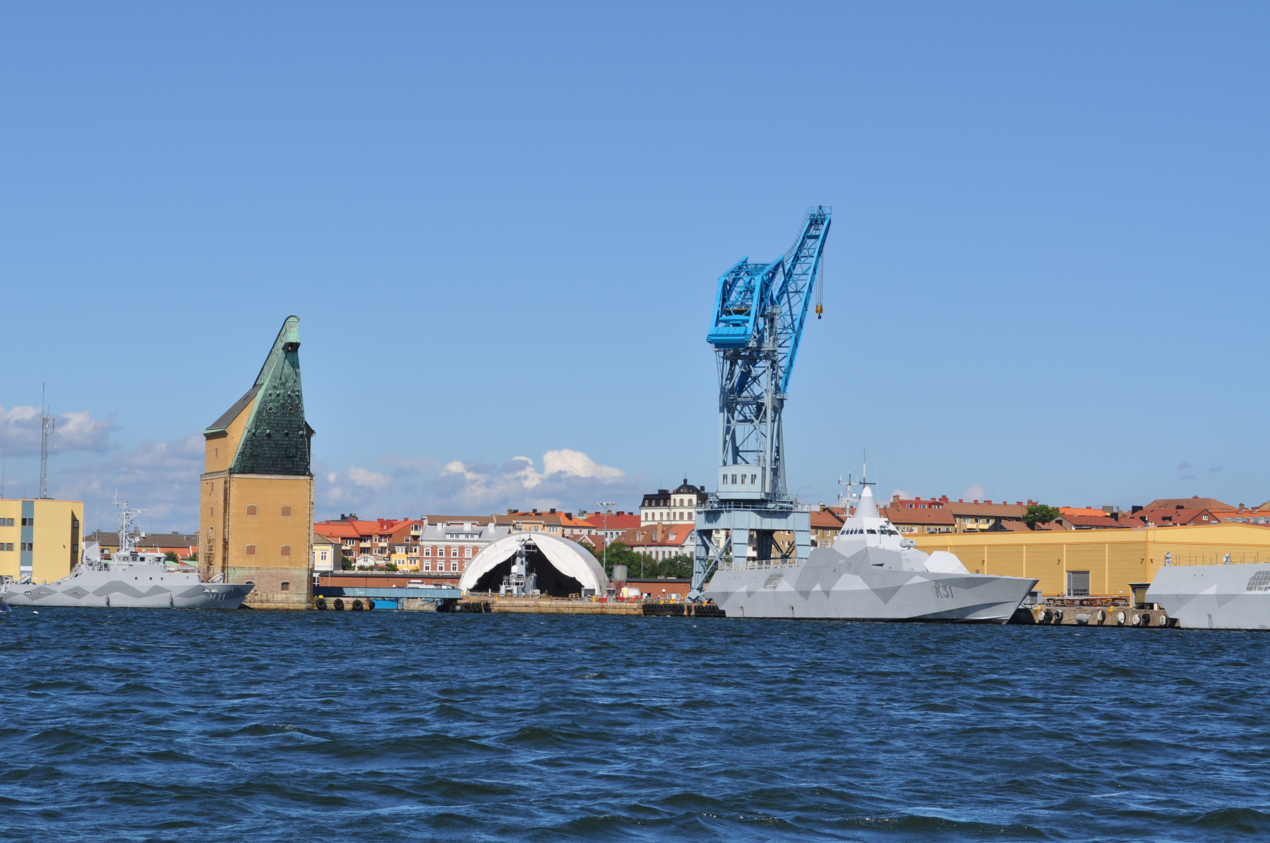 Old mast-crane on Karlskrona shipyard - navy base